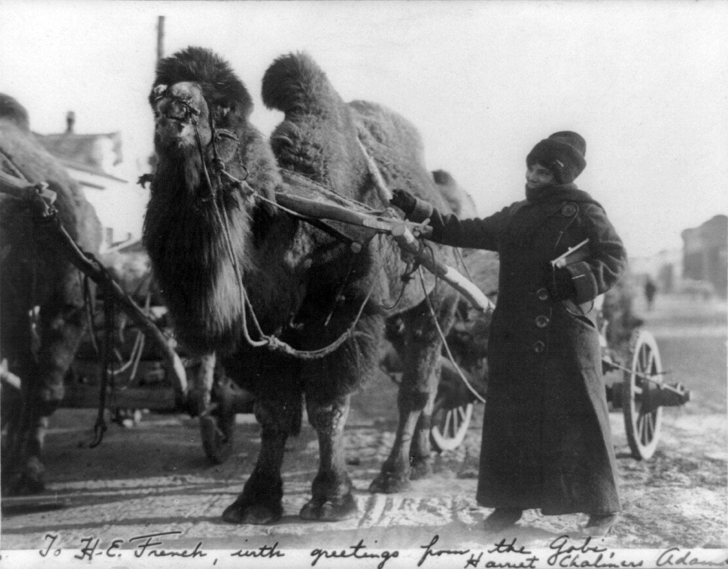 American explorer Harriet Chalmers Adams (1875-1937) in the Gobi Desert. Inscribed: "To H.E. French, with greetings from the Gobi, by Harriet Chalmers Adams."